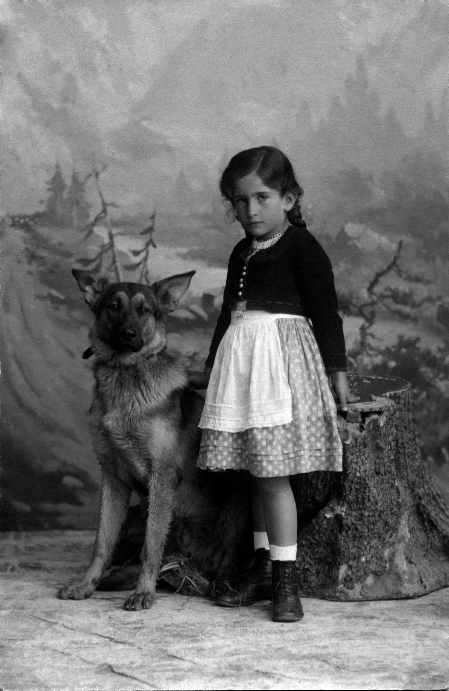 Margarete Elisabeth Dispeker (1906–1999), called Grete, ca. 1912 with Alsatian dog (UK) / German shepherd (US). Later as Grete Weil she became well-known as writer, translator and photographer.